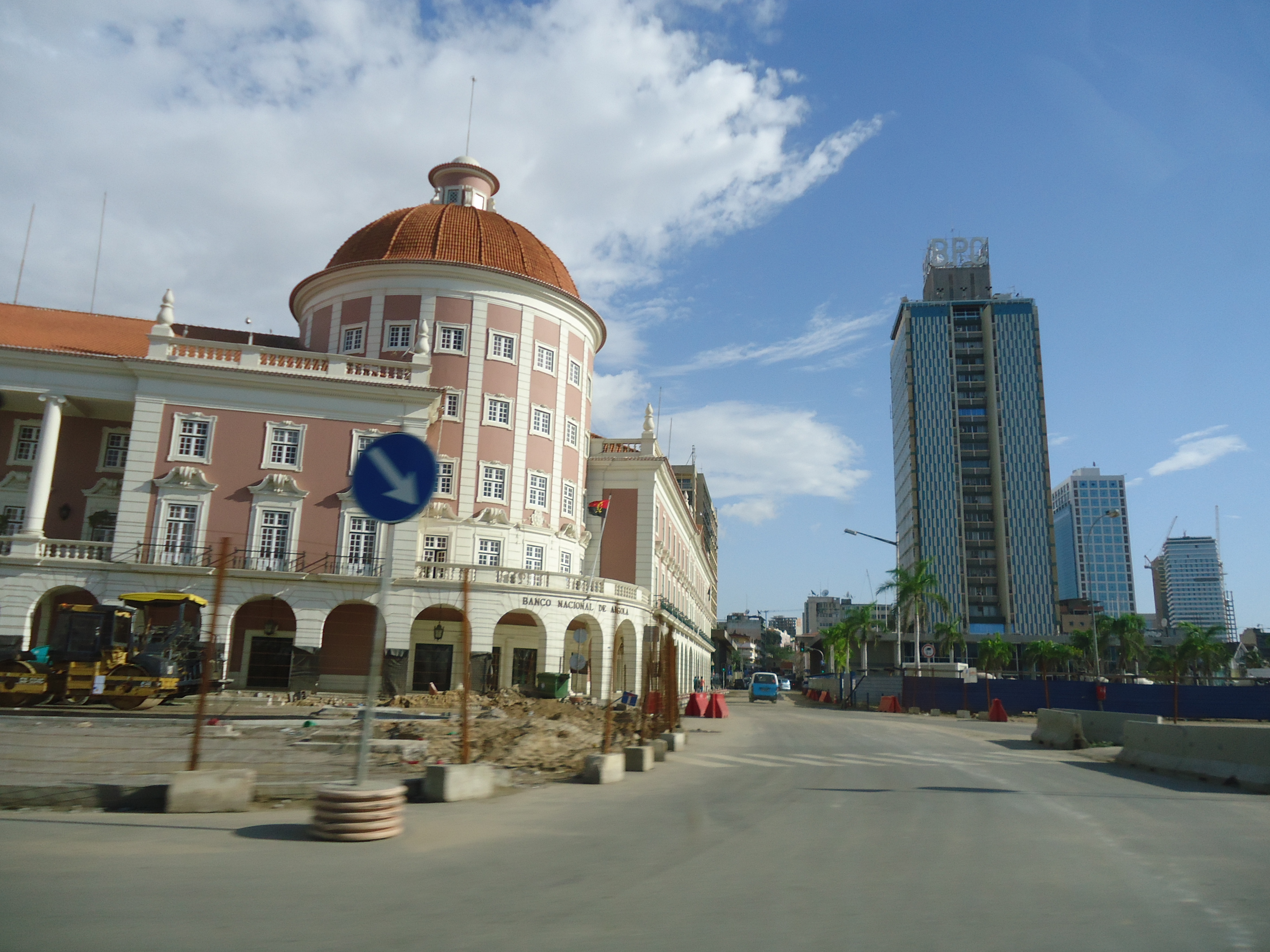 Marginal Avenida 4 de Fevereiro. Photo by Fabio Vanin, Luanda, 2013.